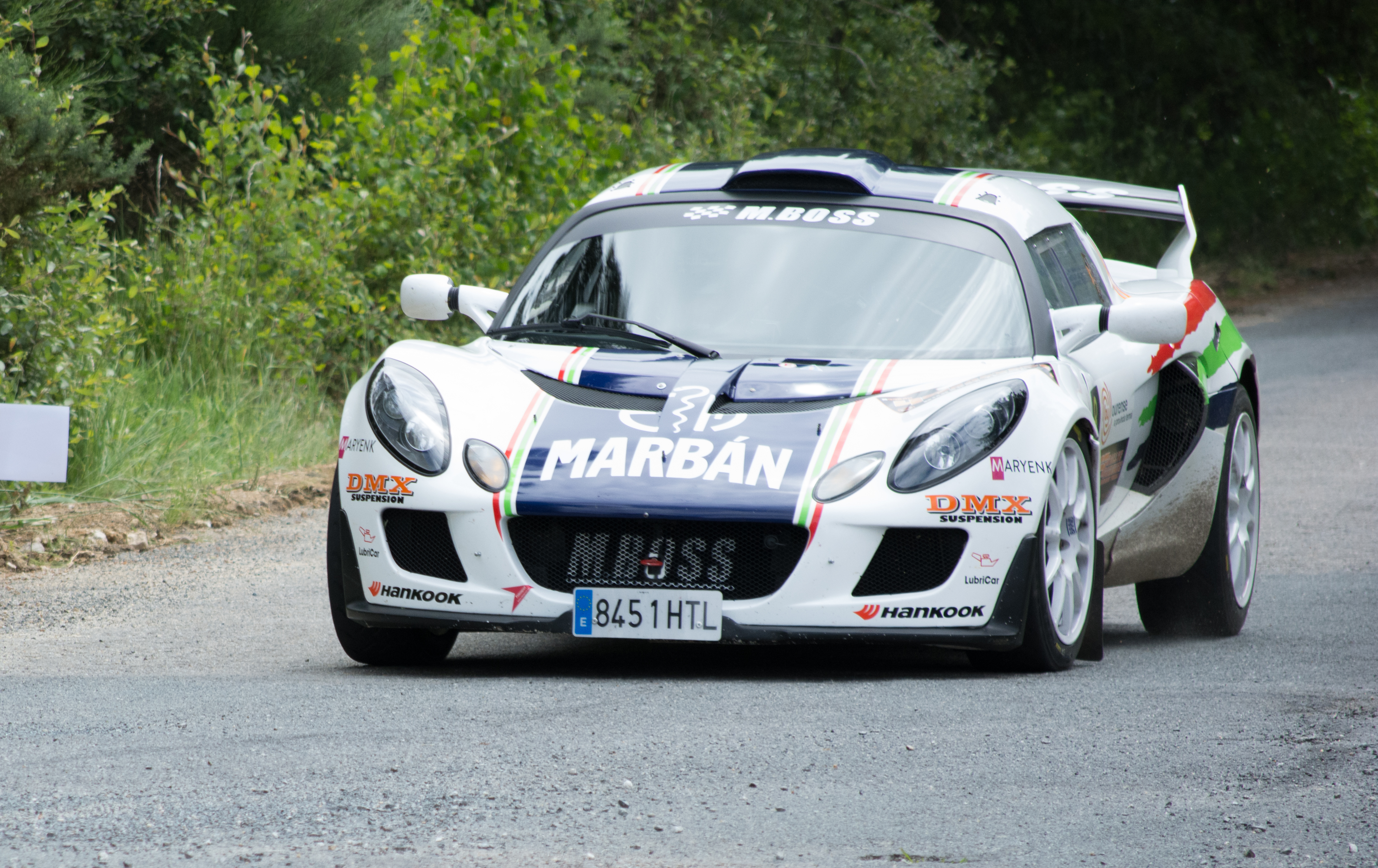 '49 TRally de Ourense ' in 2016, in the city of Ourense, scoring for the CERA.